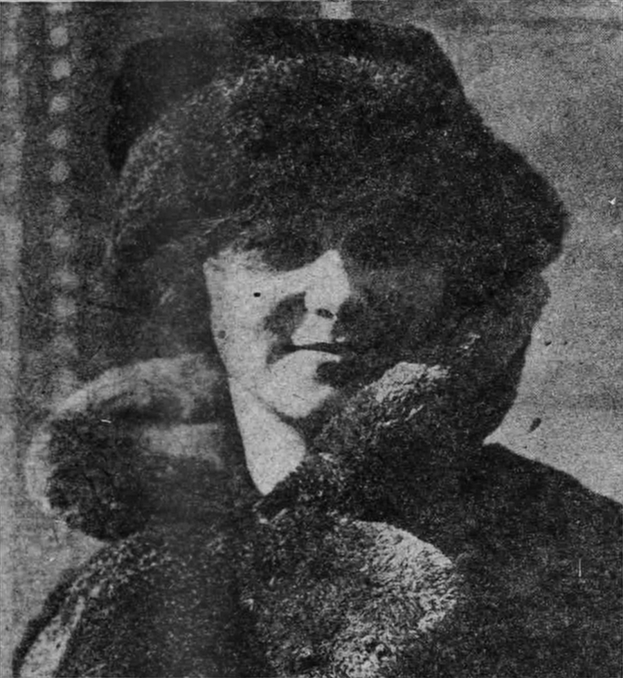 The Sunday Oregonian. (Portland, Ore.), February 17, 1918, SECTION FIVE, Page 5, headline: "STORY OF HEROIC SUZANNE SILVERCRUYS: BELGIAN GIRL".